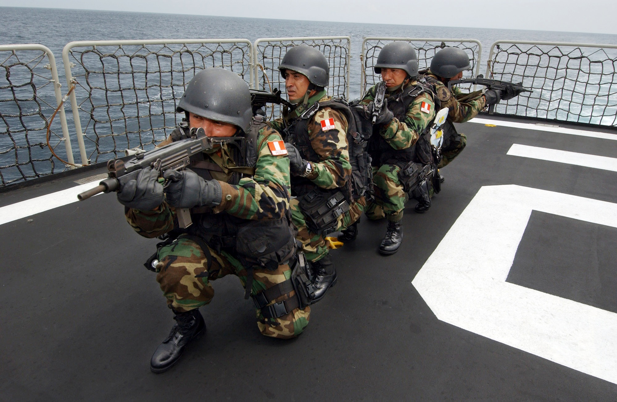 A group of Peruvian Navy special warfare operators practice maritime interdiction operation drills on the Peruvian frigate BAP Villavicencio (FM 52) during PANAMAX 2005. PANAMAX is a multinational training exercise in defense of the Panama Canal involving 15 countries.